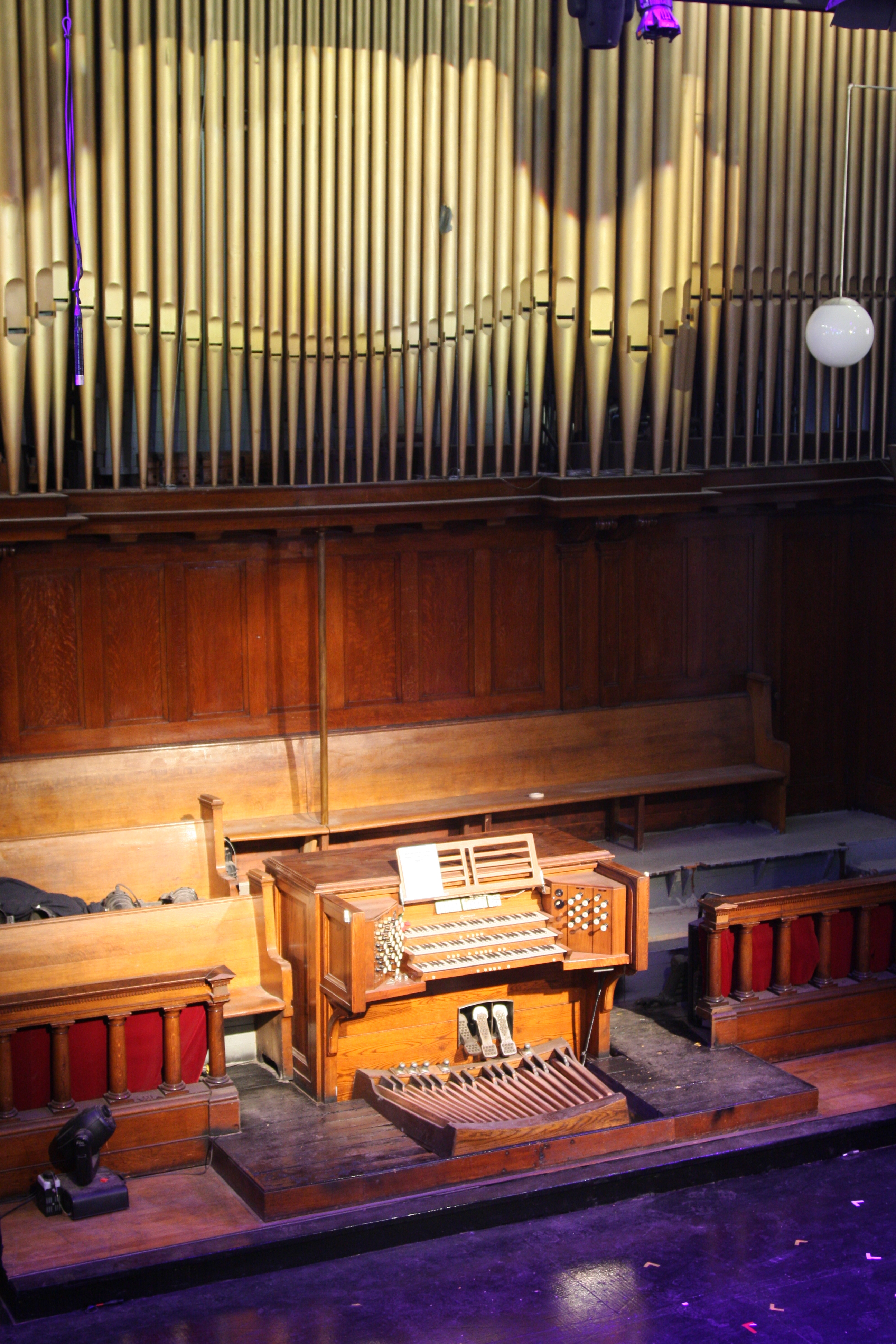 Highland Arts Theatre Casavant Frères Organ The 2,045 pipe, three-manual pipe organ made by the famous Casavant Frères in Quebec is the largest such instrument on Cape Breton Island. The 18-ton organ underwent $15,000 in repairs to its bellows in 2008. It was purchased for the new church in 1910 for $5,595. The Highland Arts Theatre is a historic building, first constructed as a Presbyterian Church, now operating an arts and culture centre in Sydney, Cape Breton Regional Municipality, Nova Scotia, Canada. It was initially constructed as St. Andrew's Presbyterian Church. In 2014 St. Andrew's reopened as the Highland Arts Theatre, a live play and film theatre and concert venue located in Sydney's waterfront district.